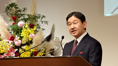 Crown Prince Naruhito addressed the JET Programme 30th Anniversary Commemorative Ceremony at the Keio Plaza Hotel in Shinjuku Ward, Tōkyō Metropolis on November 7, 2016.